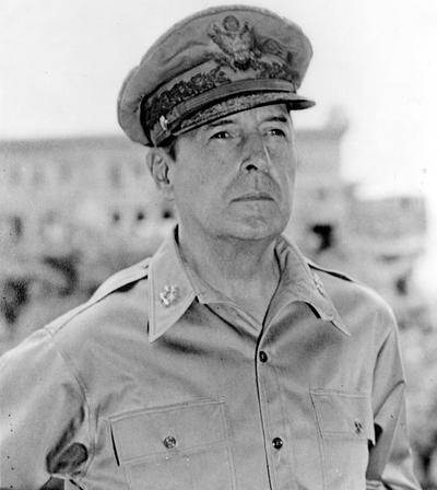 Portrait of General Douglas MacArthur. Original is oversize.